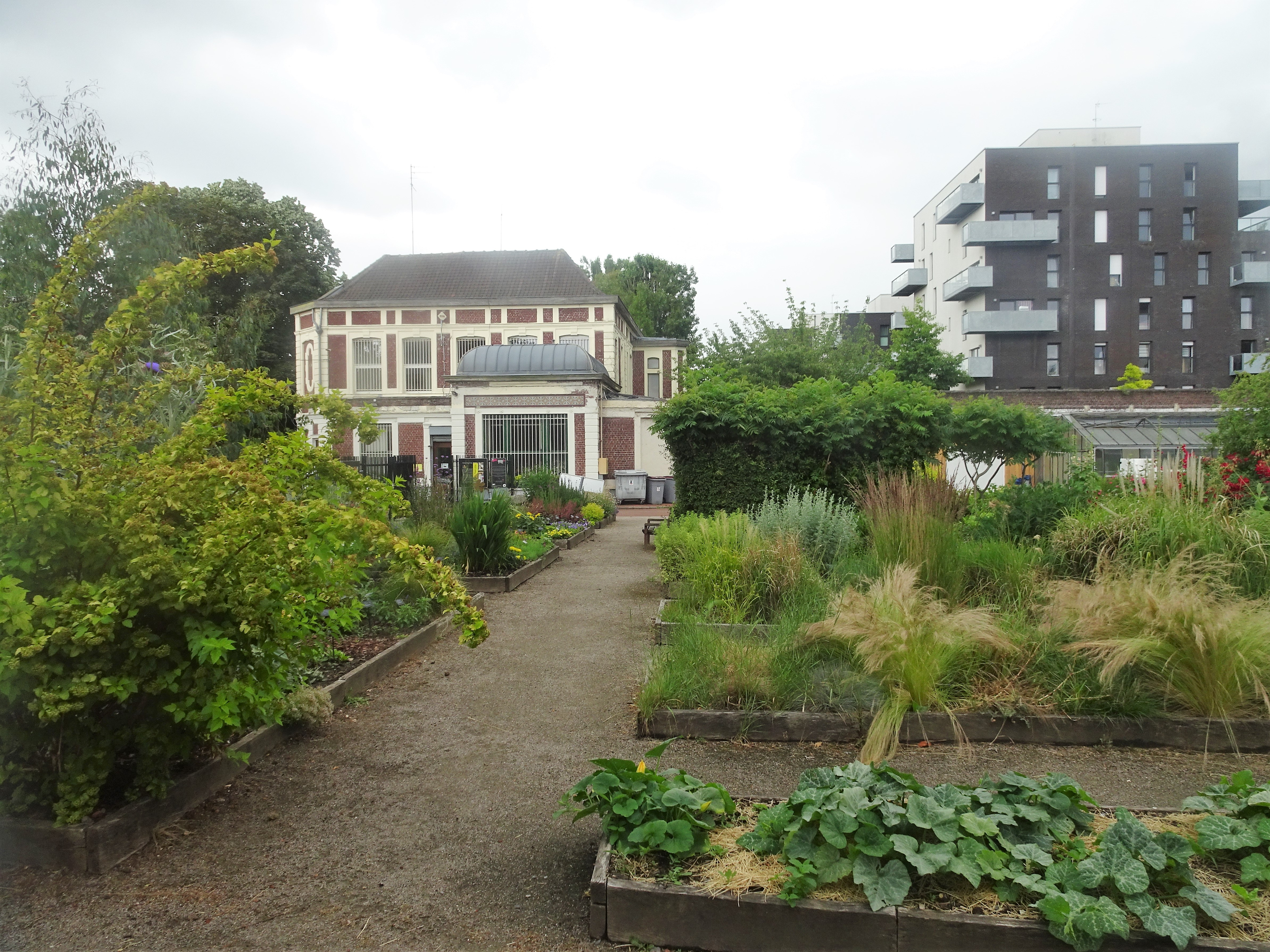 Jardin botanique de Tourcoing Nord.